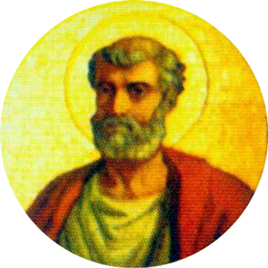 Portait of Pope Stephen I in the Basilica of Saint Paul Outside the Walls, Rome